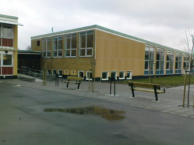 Borrby school